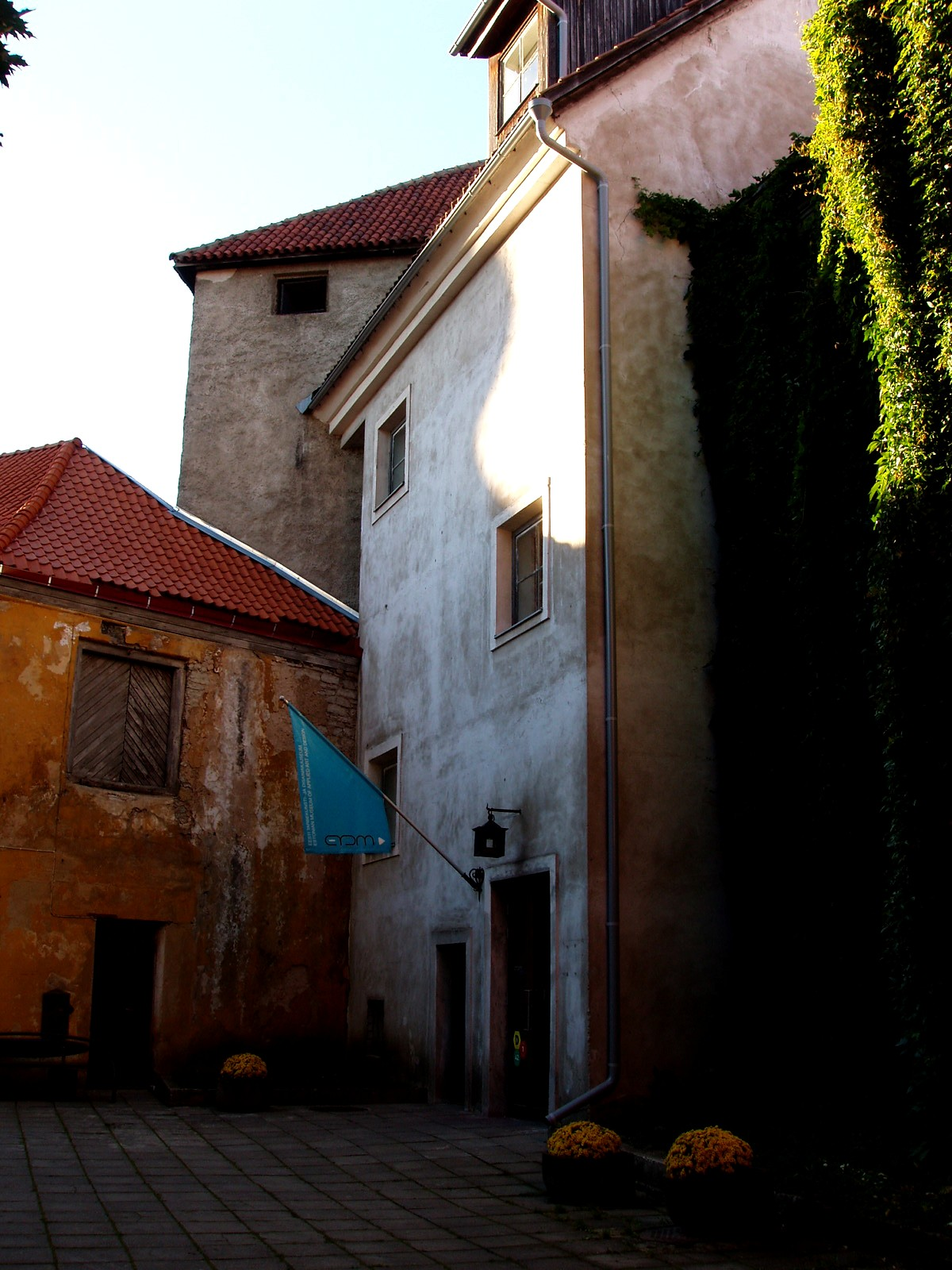 Estonian Museum of Applied Art and Design in Tallinn Old Town (Lai 17).